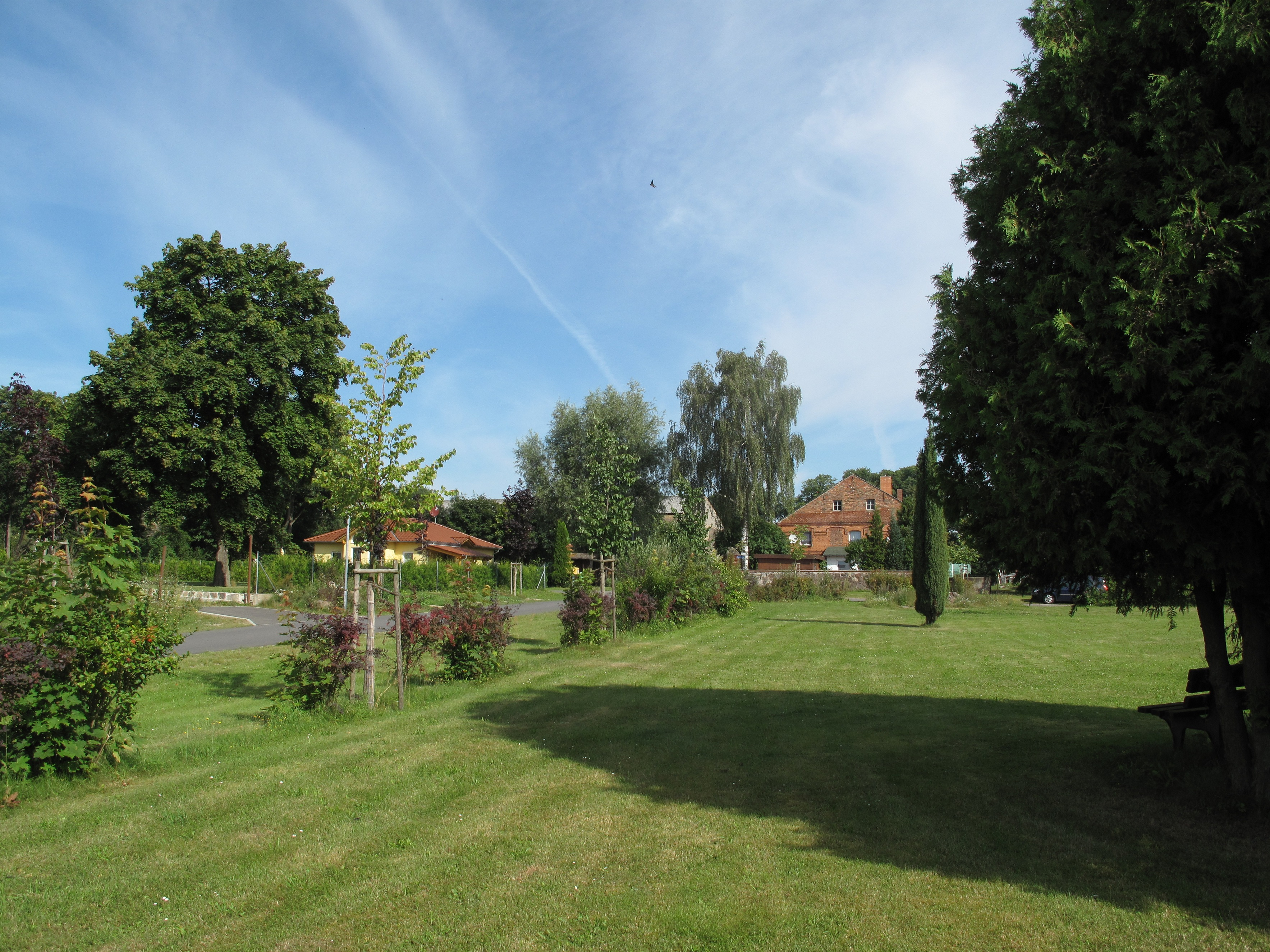 Ernsthof is a hamlet of Grunow, a village of the municipality Oberbarnim in the District Märkisch-Oderland, Brandenburg, Germany. Ernsthof was founded in 1833 as folwark of Grunow.